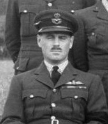 Wing Commander Edward "Mouse" Fielden, Officer Commanding No. 161 (Special Duties) Squadron RAF